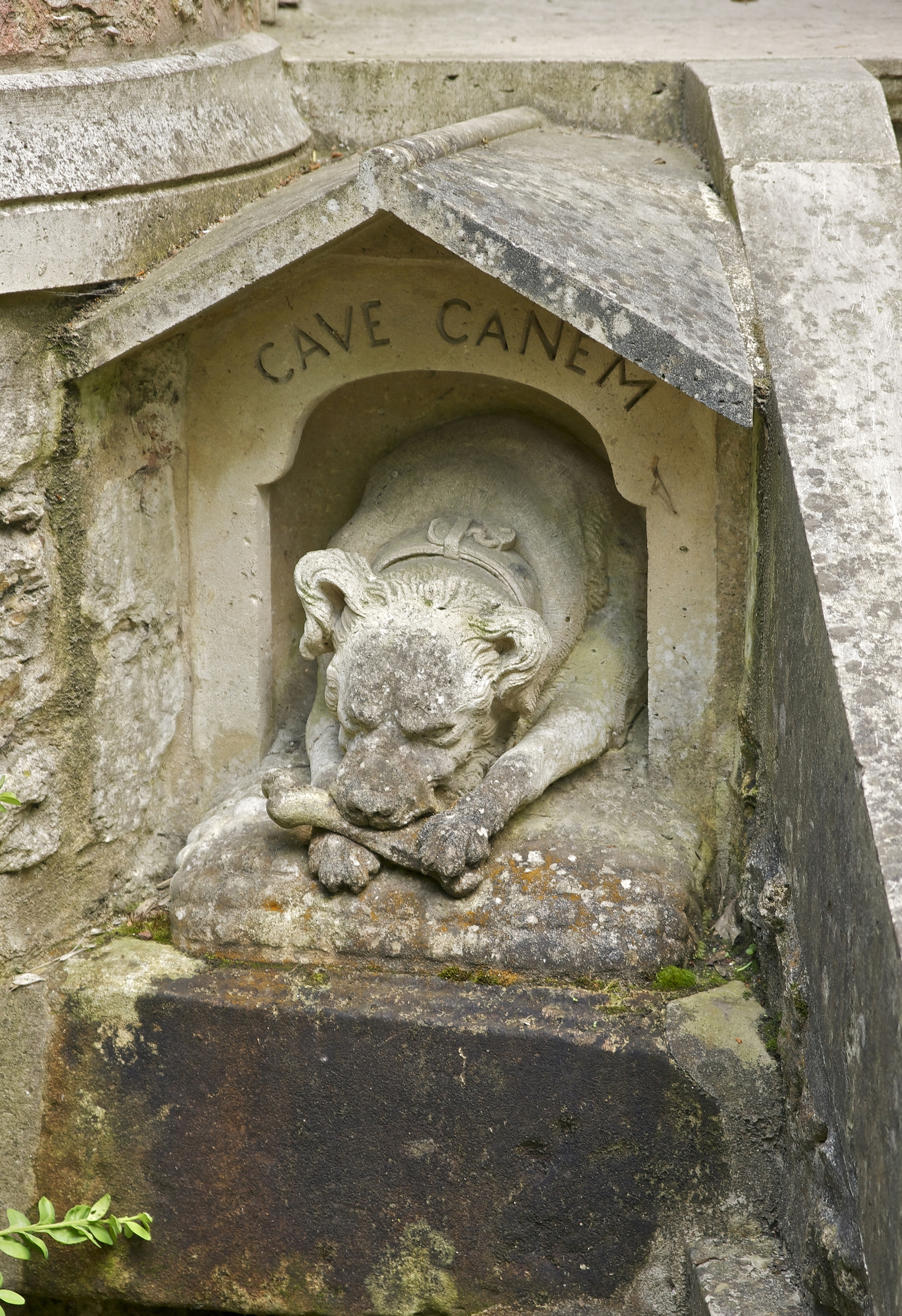 The dog of Alexandre Dumas in his house, at the entry of the Château d'If, Le Port-Marly, Yvelines, France. Inscription reads: Cave canem